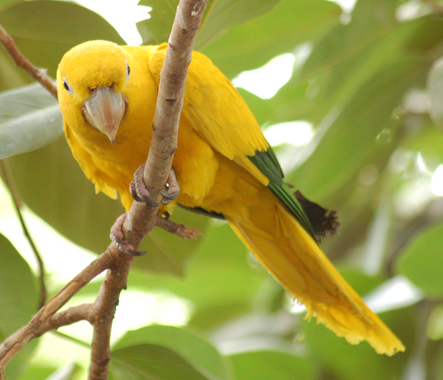 A photograph of a Golden Conureen (Guaruba guarouba en ). Photo taken at the National Aviary.